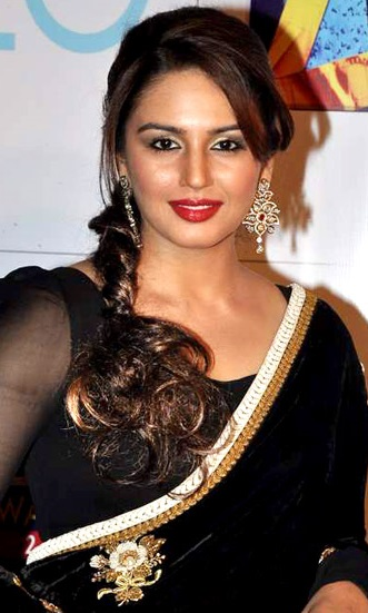 Huma Qureshi at Zee Cine Awards 2013